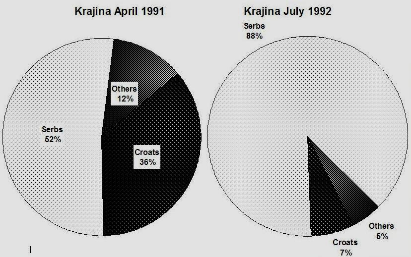 Ethnic structure of the Republic of Srpska Krajina, the self-proclaimed rebel entity within Croatia. Comparison of the area according to the 1991 census and Krajina's own documents from July 1992 which gives a report about the new ethnic make-up. Sources